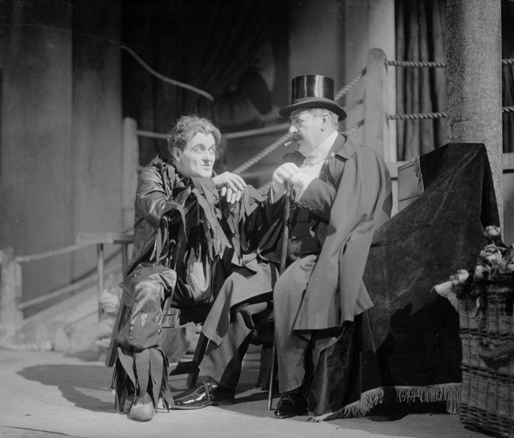 Richard Bennett (He, left) & Louis Calvert (Baron Regnart, right) in the Leonid Andreyev's play - english adaptation - He Who Gets Slapped, Broadway, Garrick Theatre, NY - cropped (original image : see source)